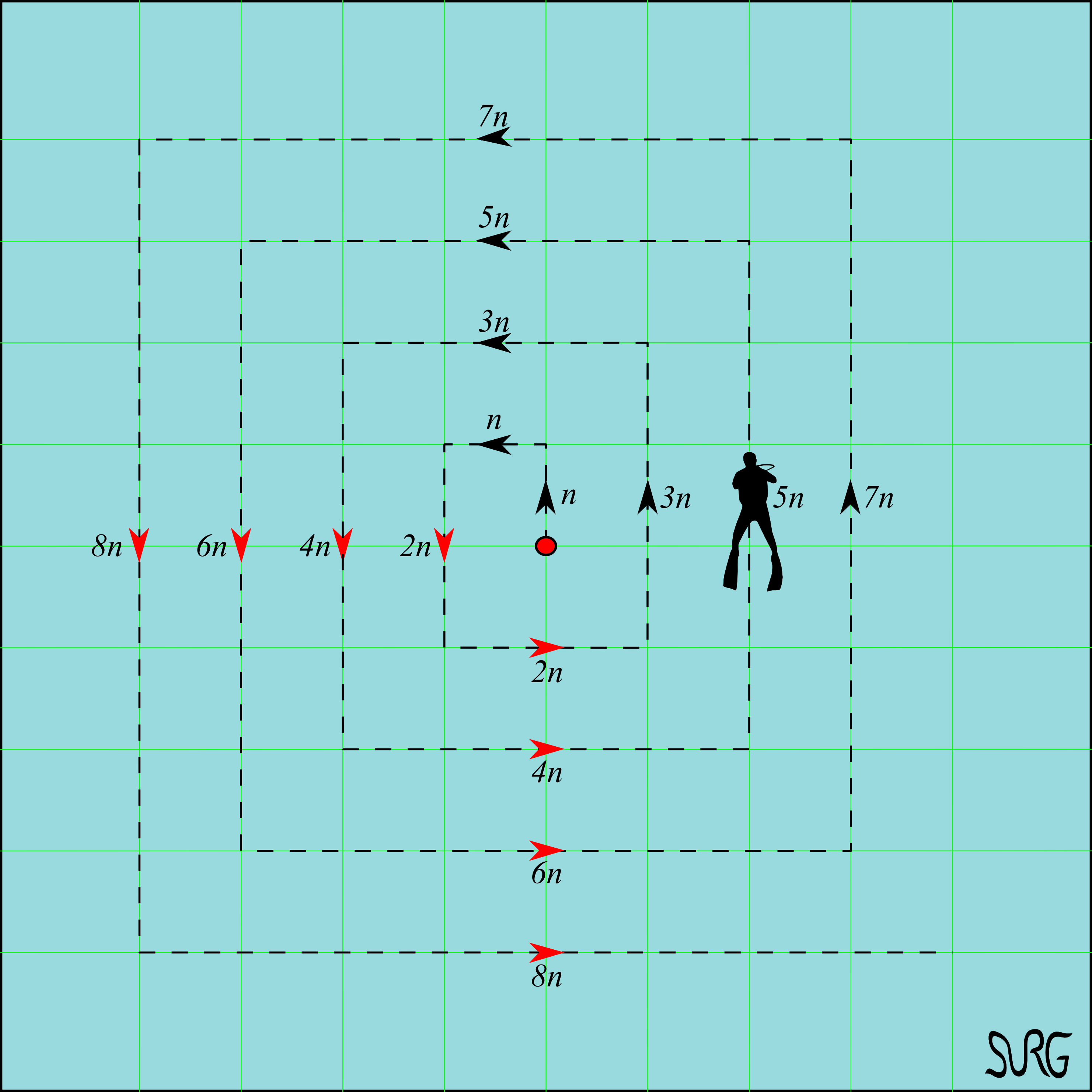 Illustration of an underwater compass box search pattern